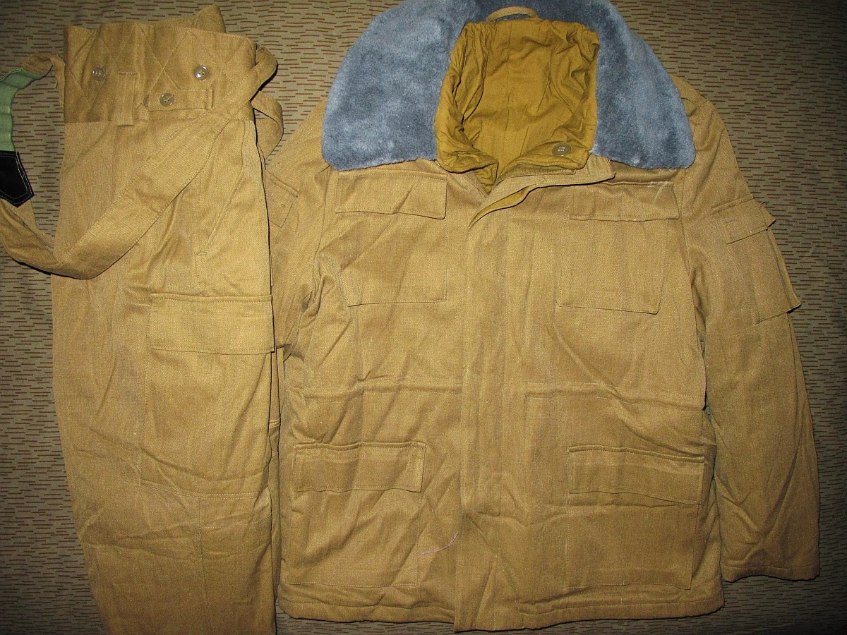 Soviet winter Afghanka field uniform.